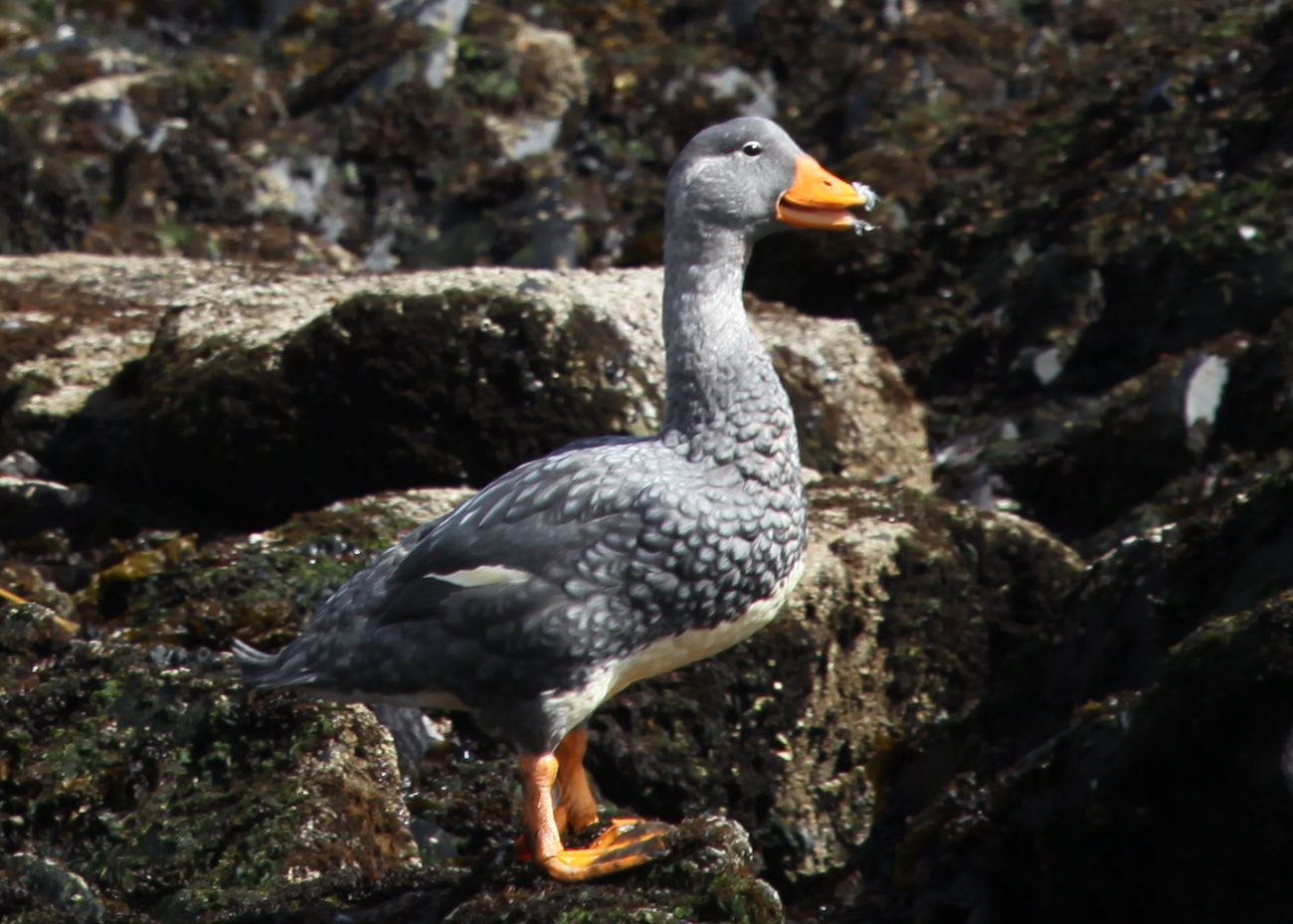 Photographed in the Beagle Channel near Ushuaia, Argentina.